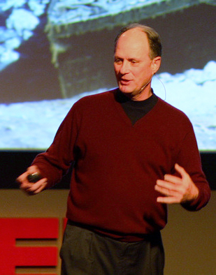 Robert Ballard (the man who found Titanic, Bismarck, USS Yorktown, and JFKs PT-109) gave an impassioned presentation on the importance exploring our oceans. He founded the JASON Project to let students collaborate with scientists while exploring the underwater universe.